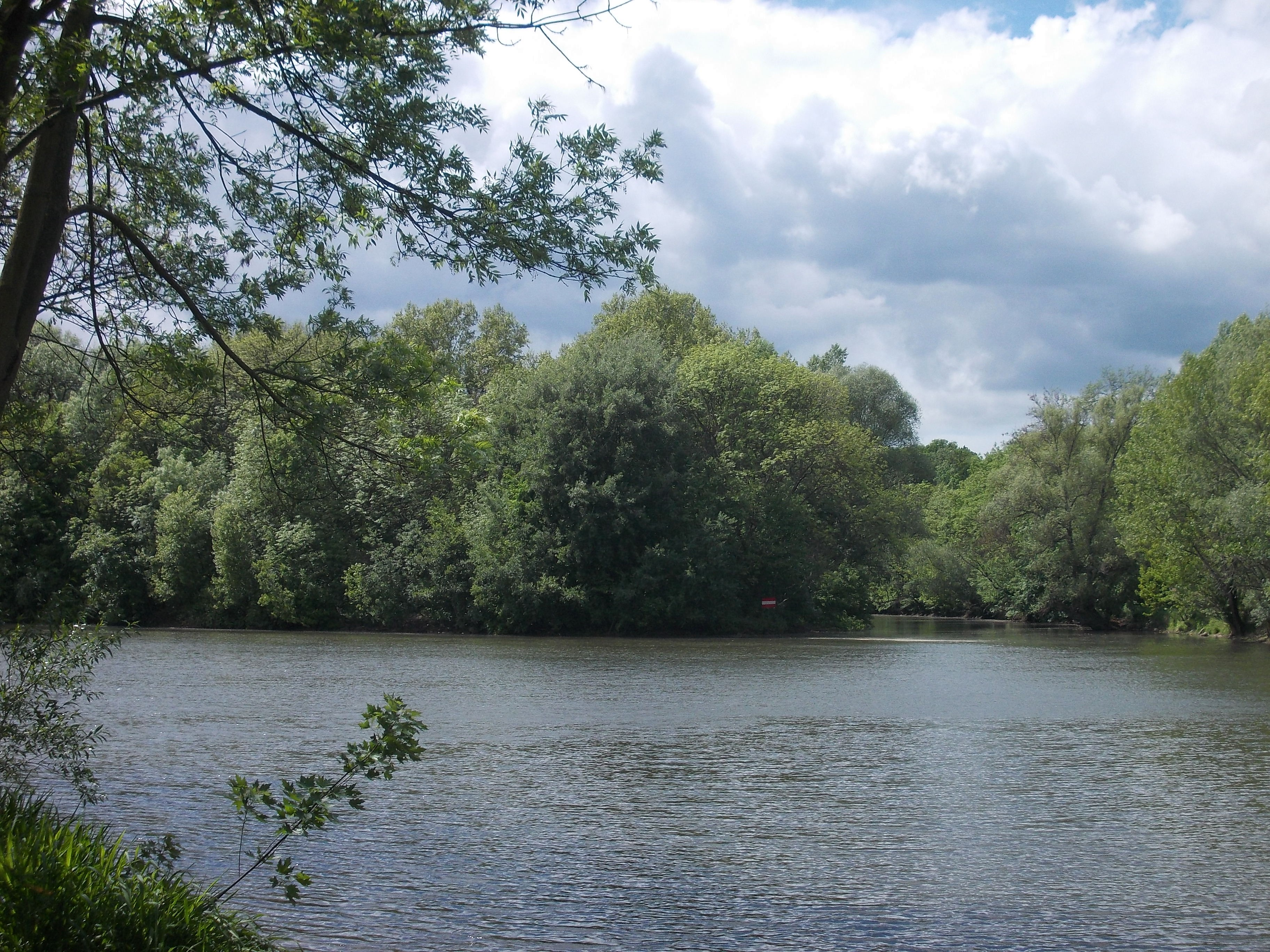 North end of Peissnitz Island (Nature reserve) in Halle (Saale), Saxony-Anhalt